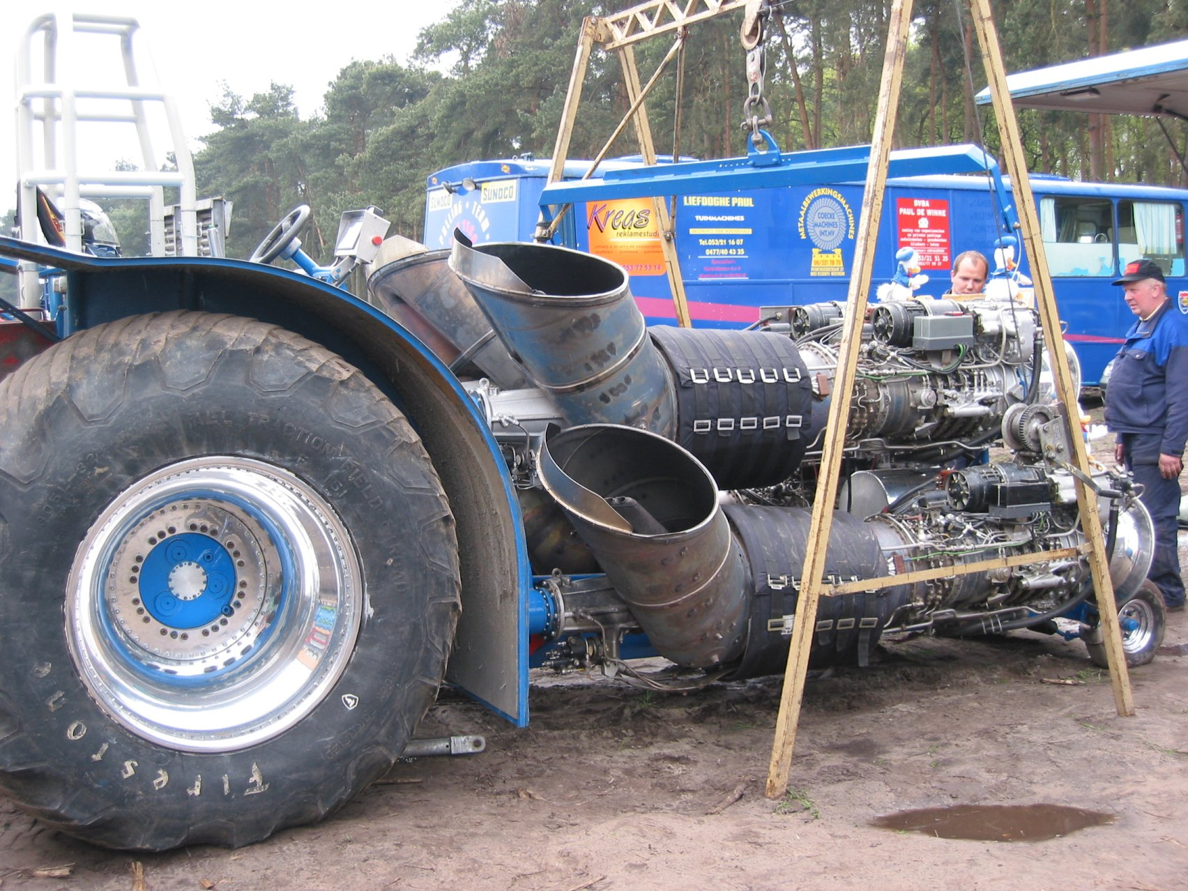 Tractor pulling gasturbine